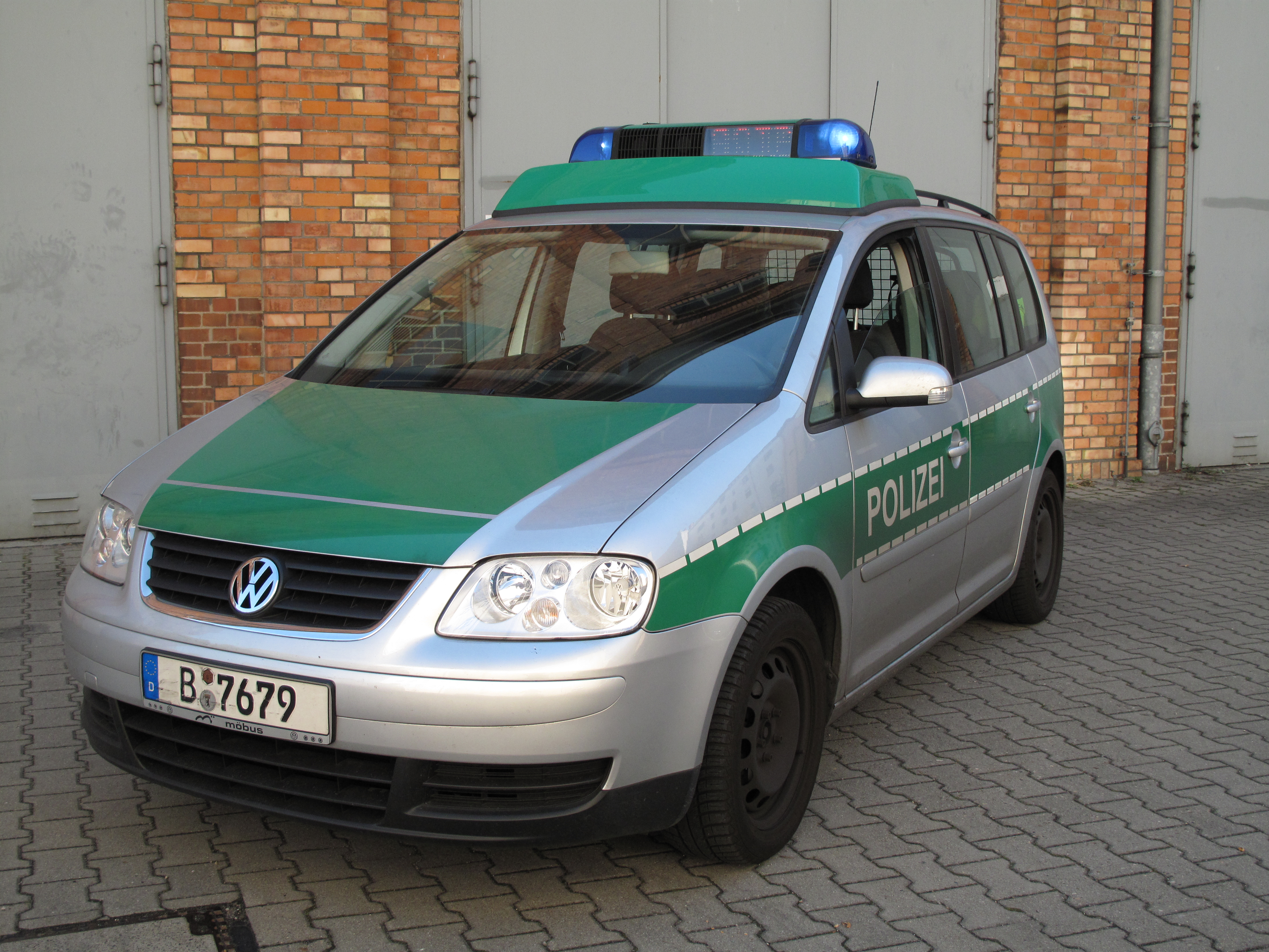 German Police Patrol car in old green-silver livery in Berlin.